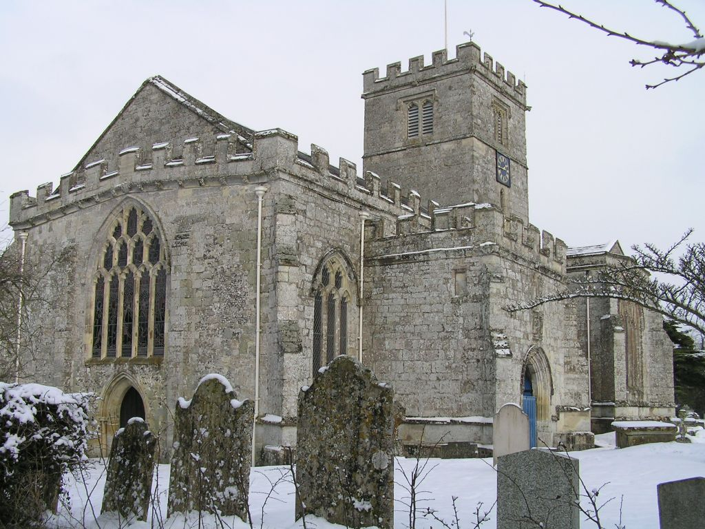 All Saints' parish church, Broad Chalke, Wiltshire, England, seen from the southwest in snow on 2 February 2009